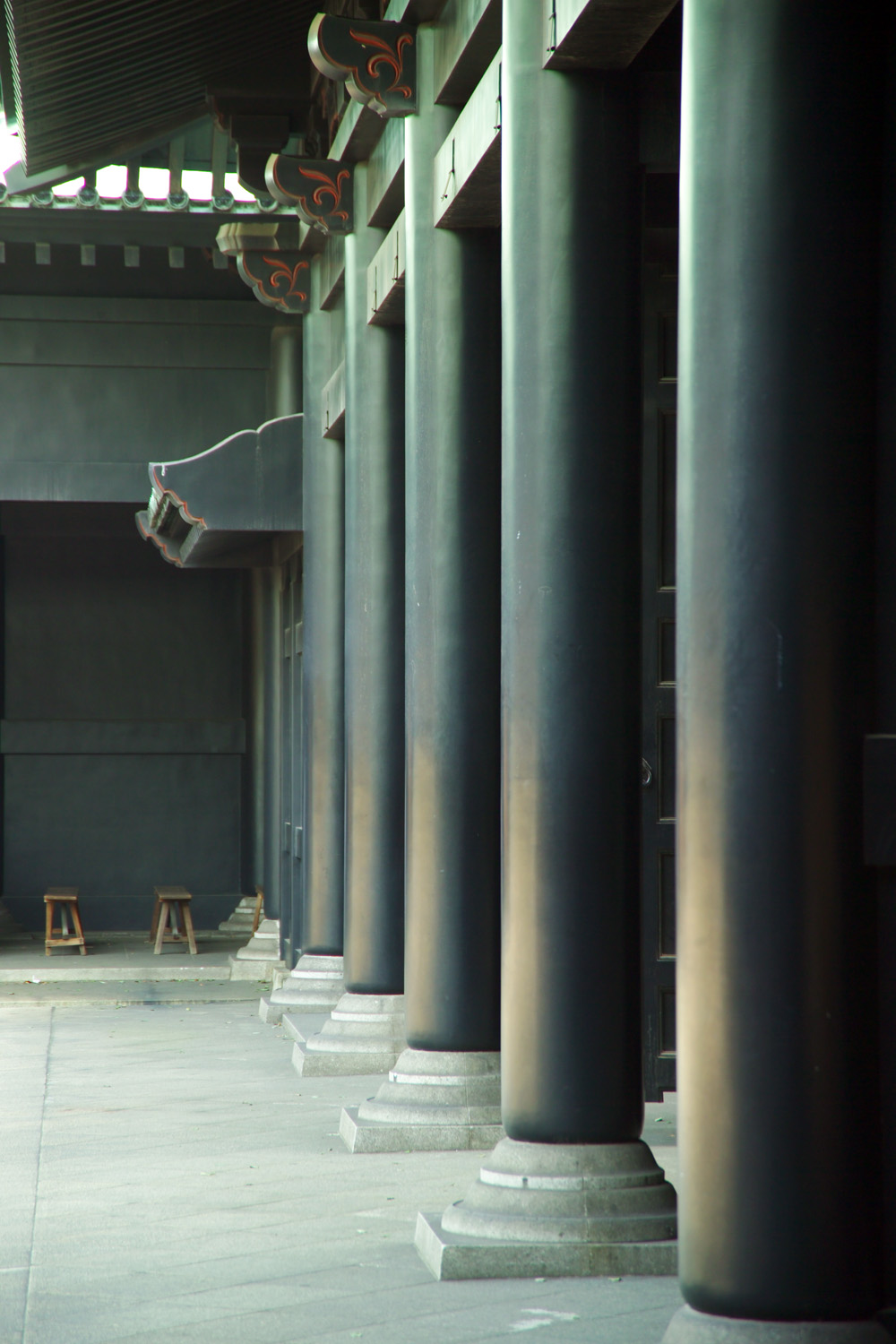 Yushima Seido Confucian temple Bunkyo-ku Tokyo, Japan I contribute my rights in this photo to the public domain.